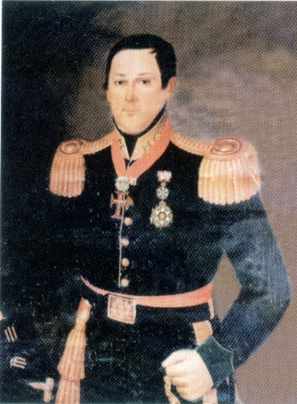 Francisco Peixoto de Lacerda Vernek (ou Werneck) (1795 — 1861), second earl of Pati do Alferes, dressed in Brazilian National Guard costume and .